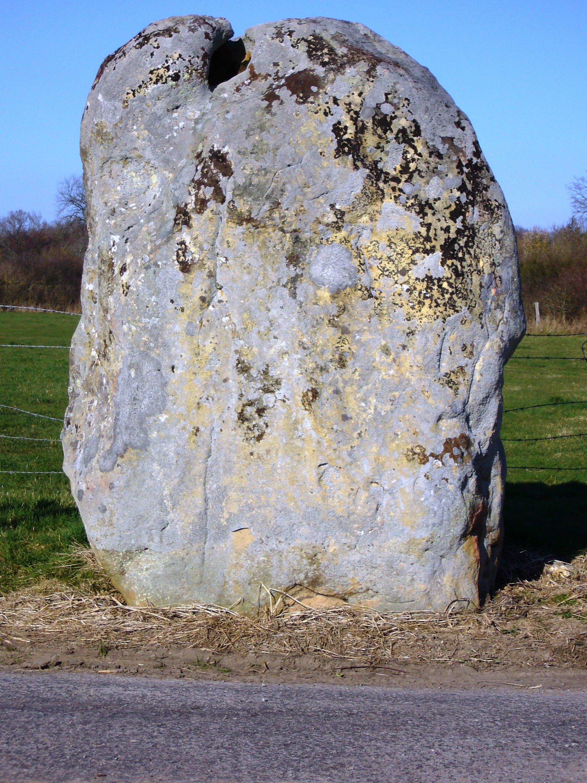 Menhir at Landepéreuse, Normandy